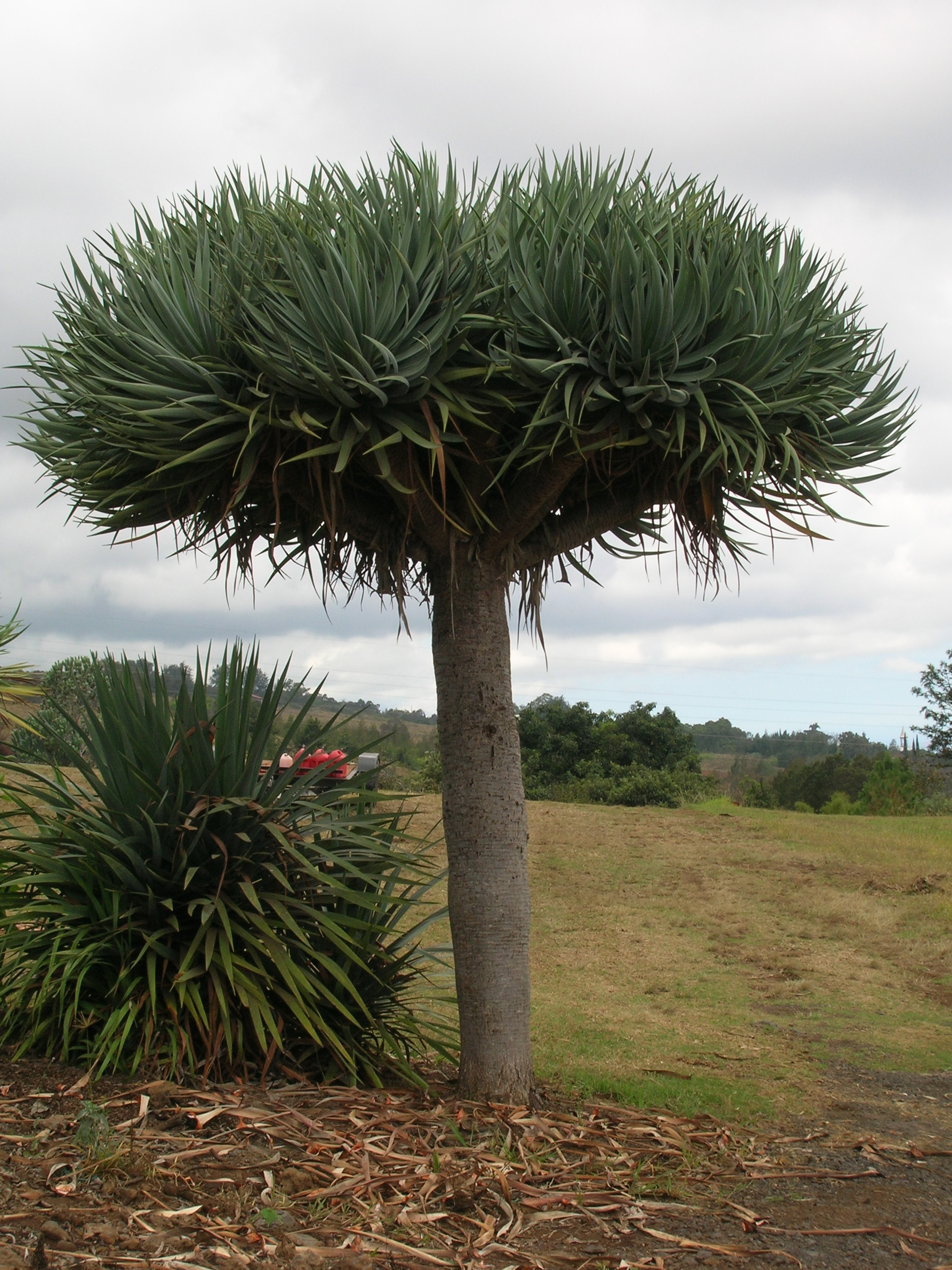 Dracaena draco (habit). Location: Maui, Kula